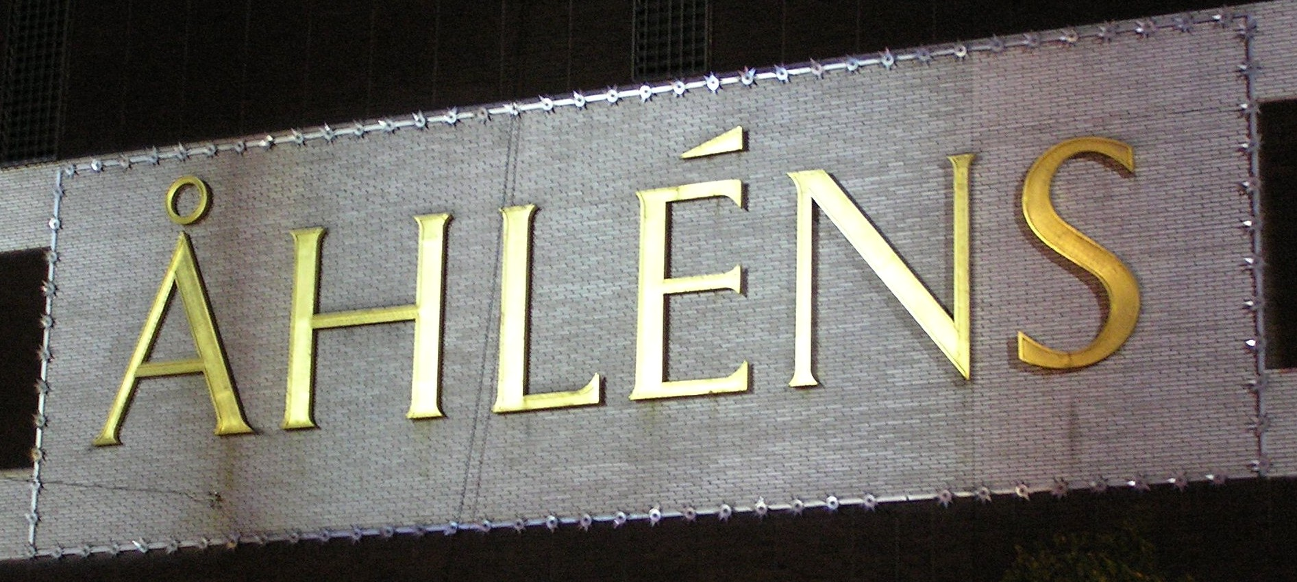 Åhléns logo in the facade of the Åhléns City, Stockholm, Sweden.